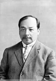 Liang Shiyi, premier of Beiyang government between 1921 and 1922.